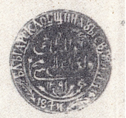 Seal of the Bulgarian Municipality in Gevgeli.